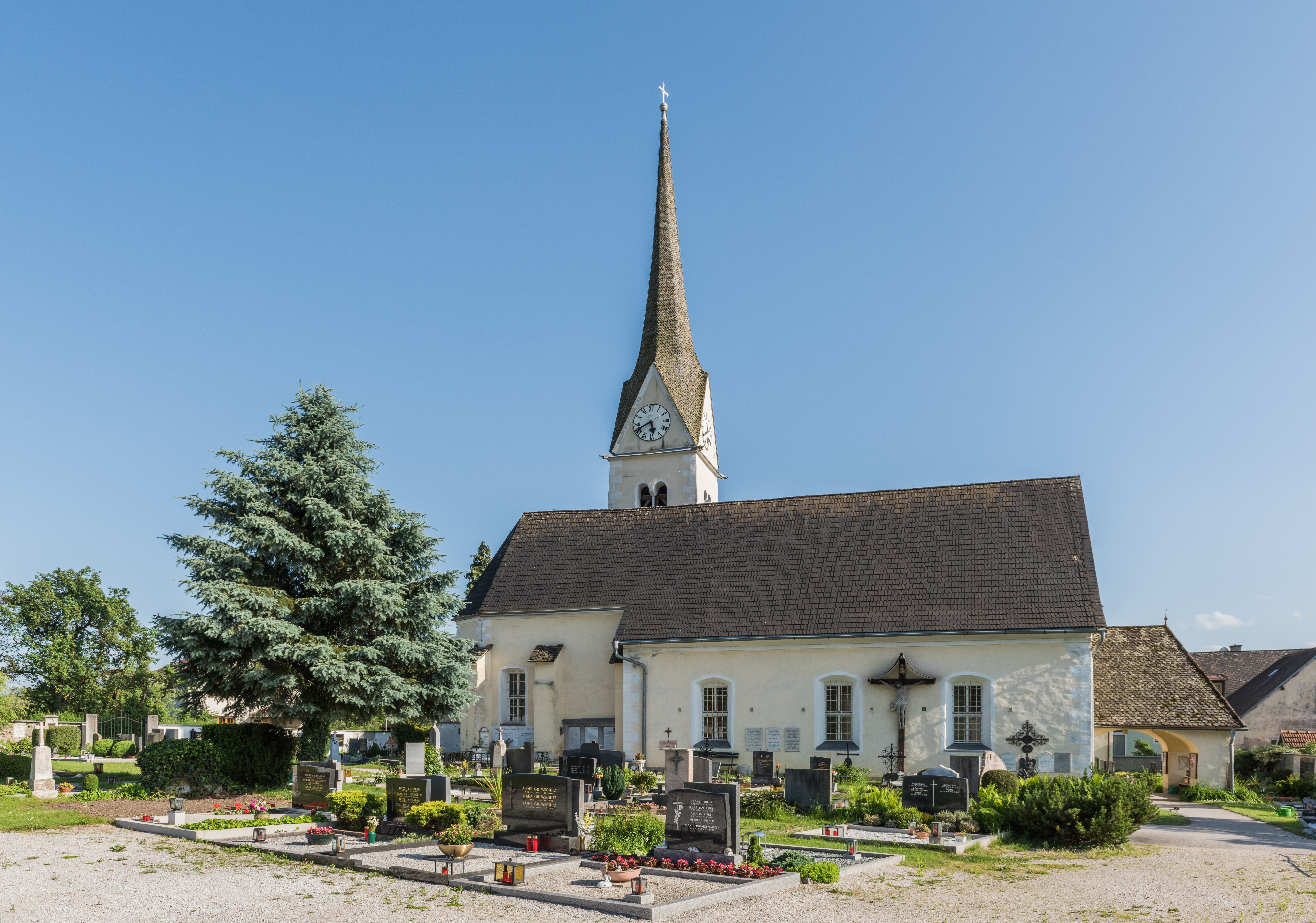 Parish church Sankt Georgen am Sandhof with cemetery, 9th district Annabichl, municipality Klagenfurt on the Lake Woerth, Carinthia, Austria, EU